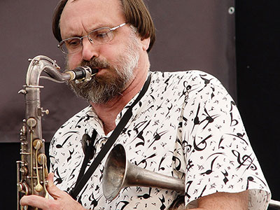 Scott Robinson in Aarhus Denmark 2013